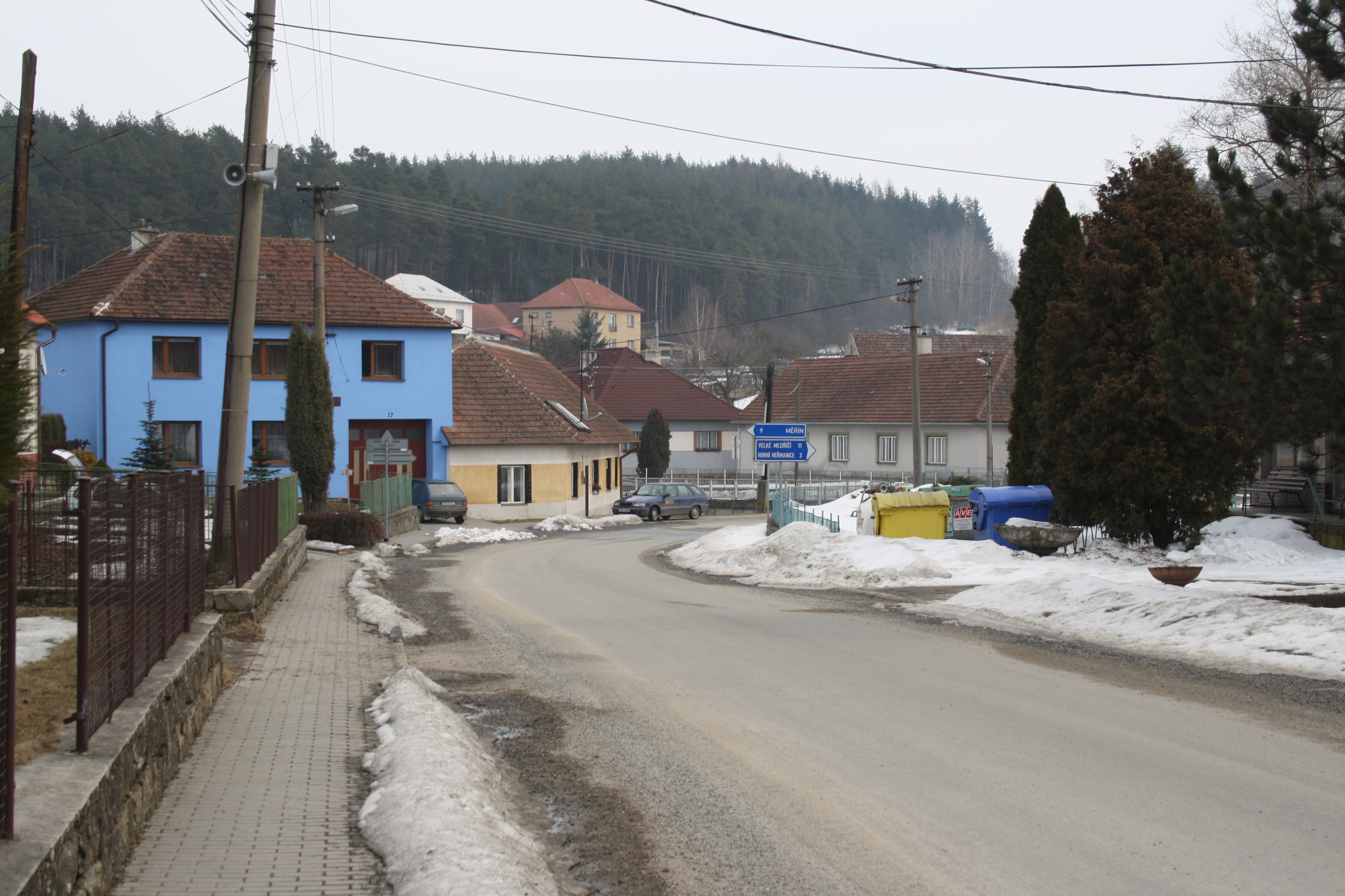 Center of Bochovice.